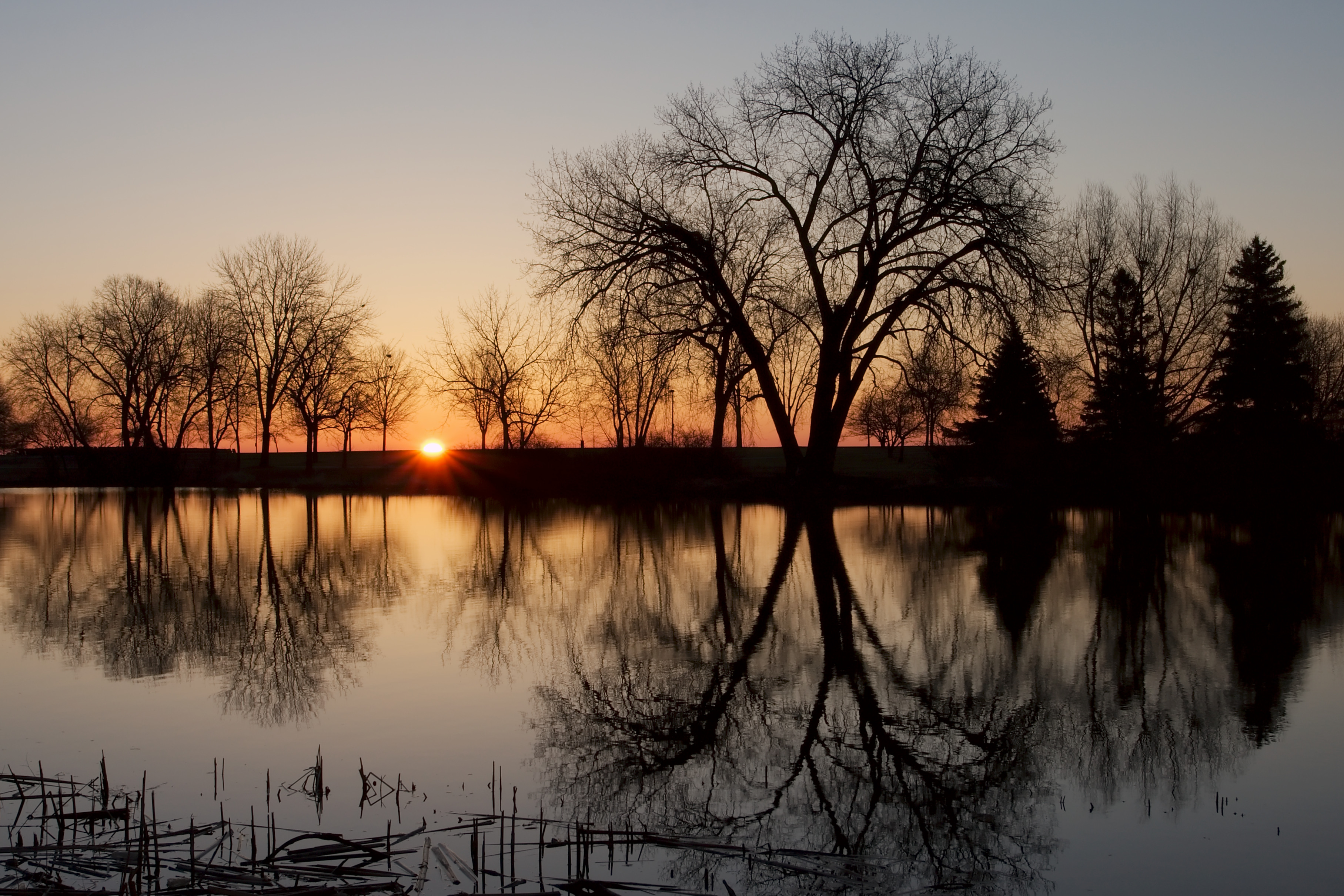 Sunrise over Veterans Park, Milwaukee, Wisconsin, USA.